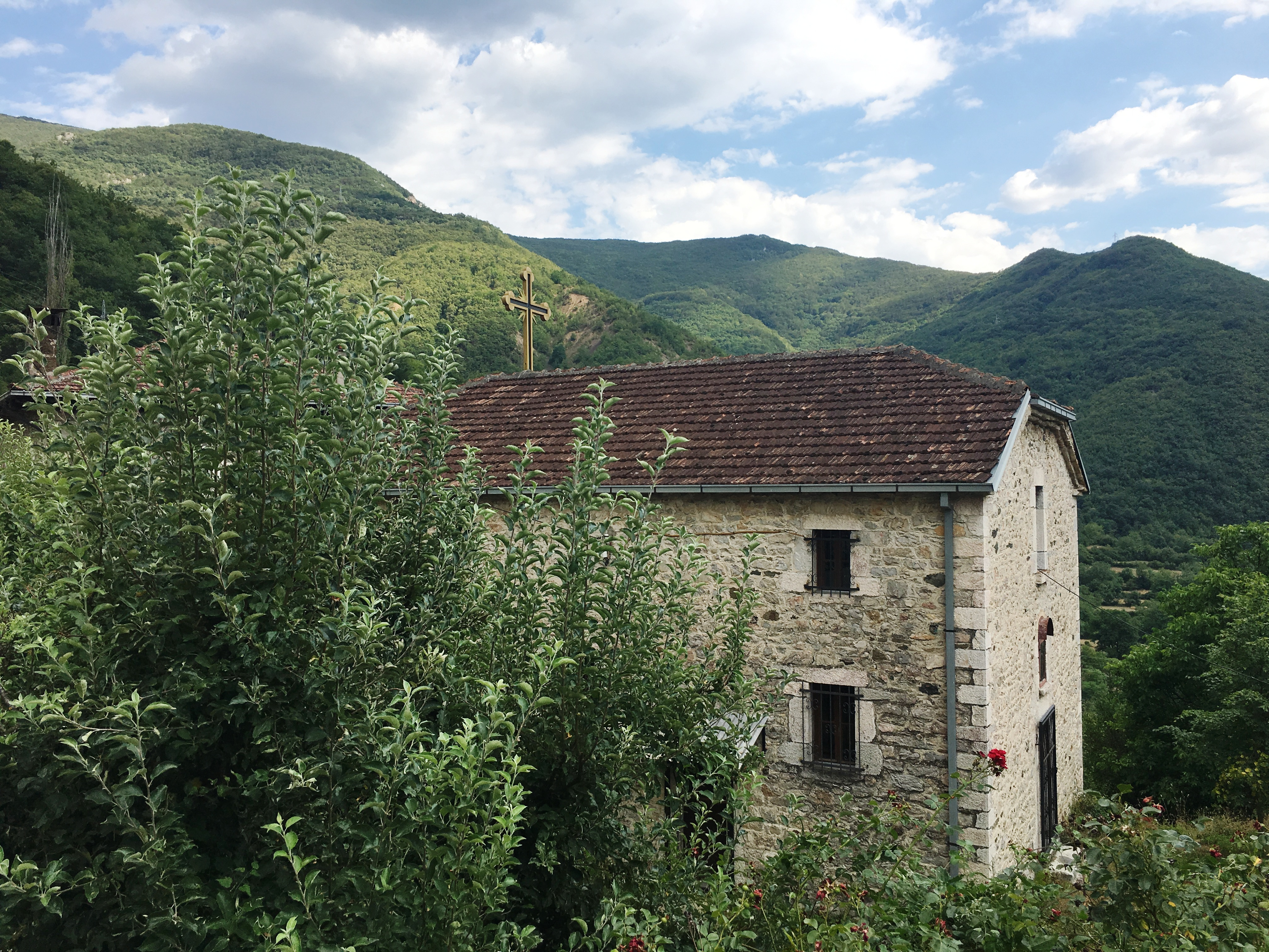 Church of the Theotokos in the village of Janče